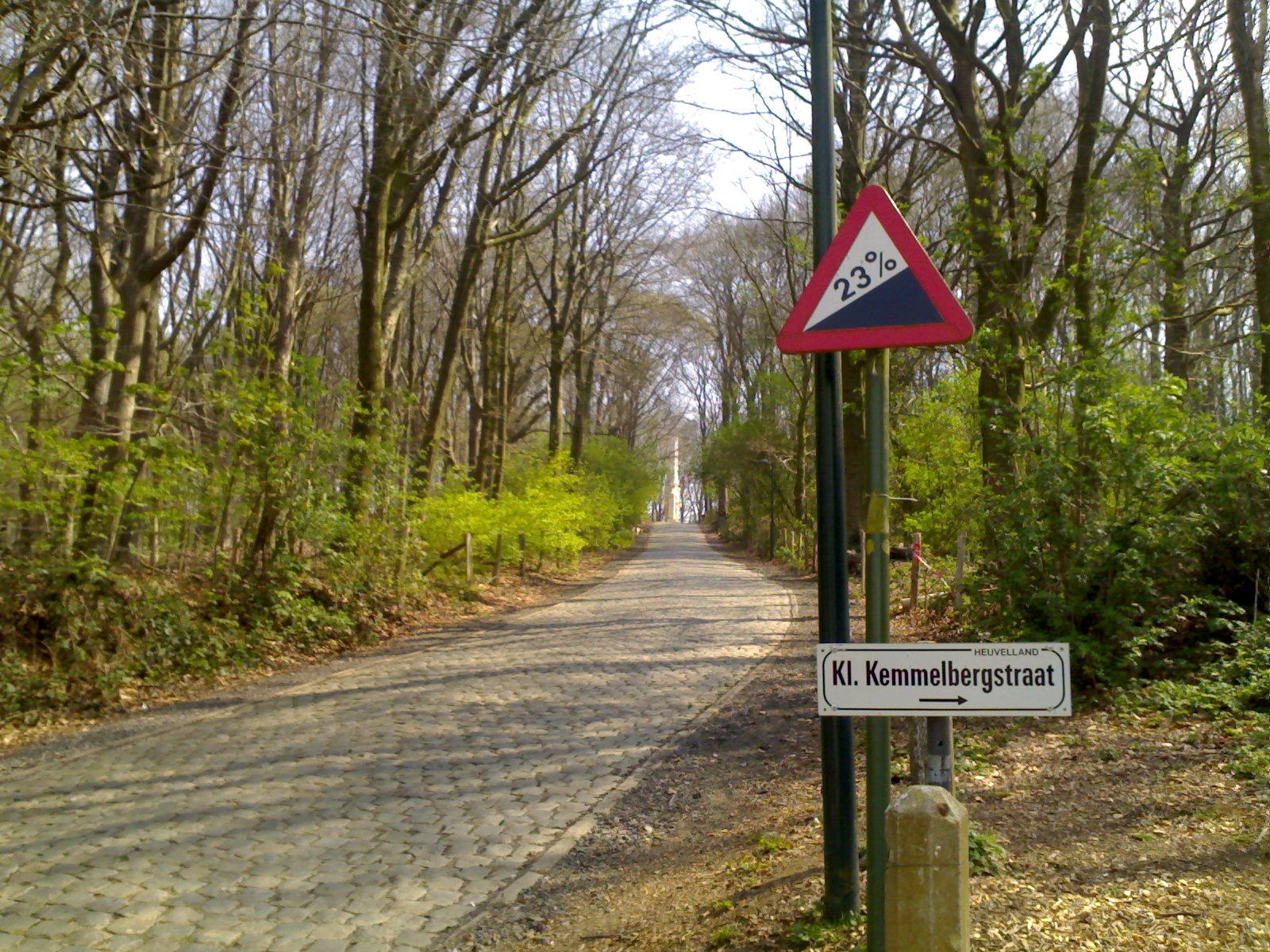 Royaltyfree. Kemmelberg, Kemmel, Belgium. Picture taken by author (VLS user:Astro) on April 15th 2007